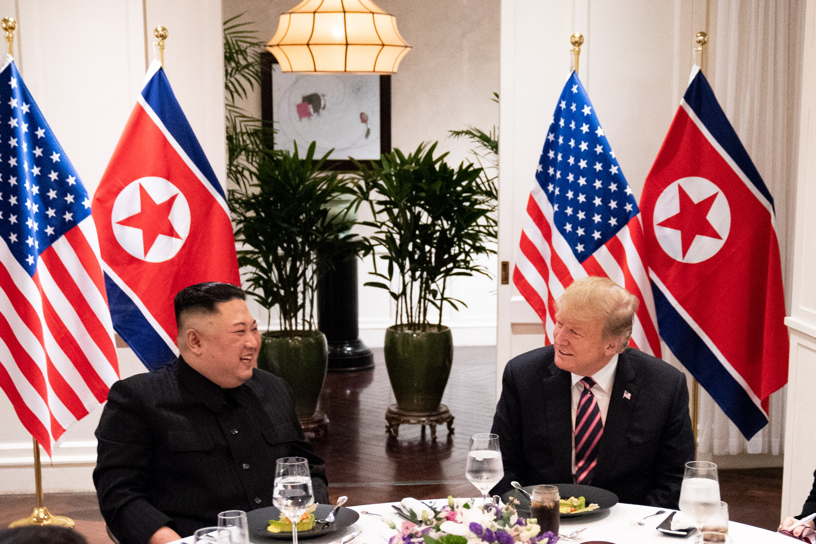 President Donald J. Trump and Kim Jong Un, Chairman of the State Affairs Commission of the Democratic People’s Republic of Korea meet for a social dinner Wednesday, Feb. 27, 2019, at the Sofitel Legend Metropole hotel in Hanoi, for their second summit meeting. (Official White House Photo by Shealah Craighead)